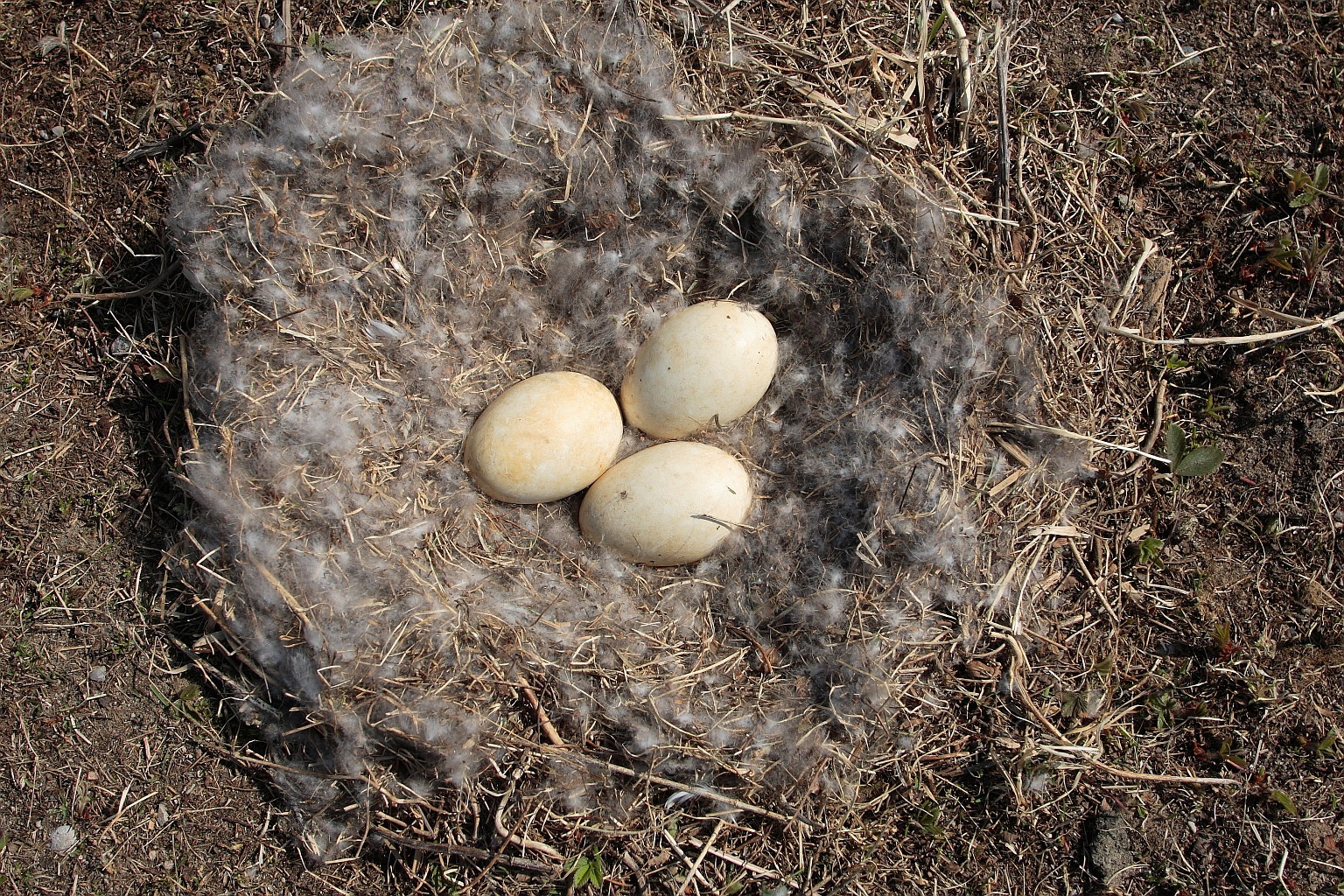 An active nest of a Canada Goose. Tiny Marsh Provincial Wildlife Area, Ontario, Canada.